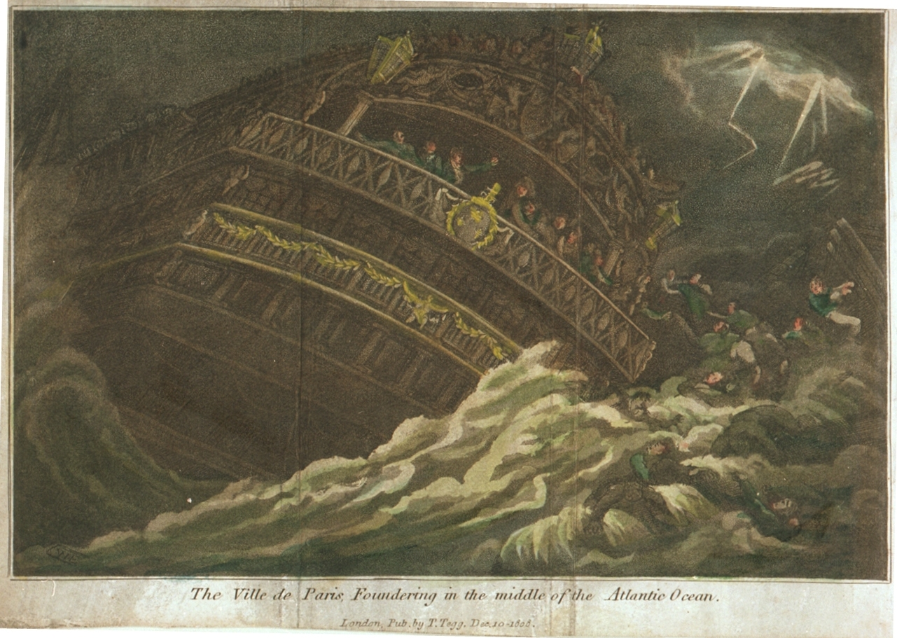 The ship Ville de Paris, captured at the Battle of the Saintes, falls into a storm when transferred to England.